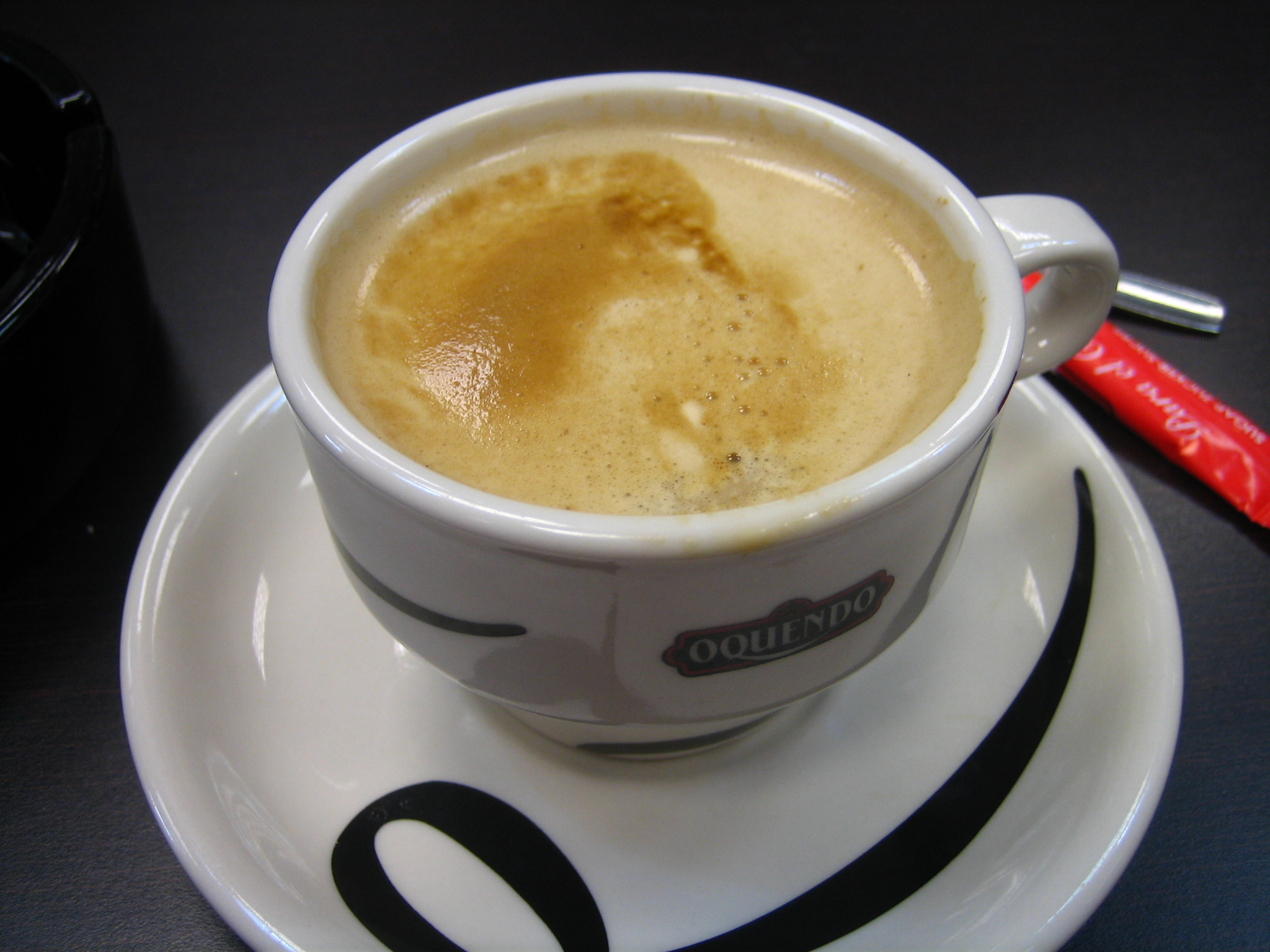 Café con leche (Coffee with milk)